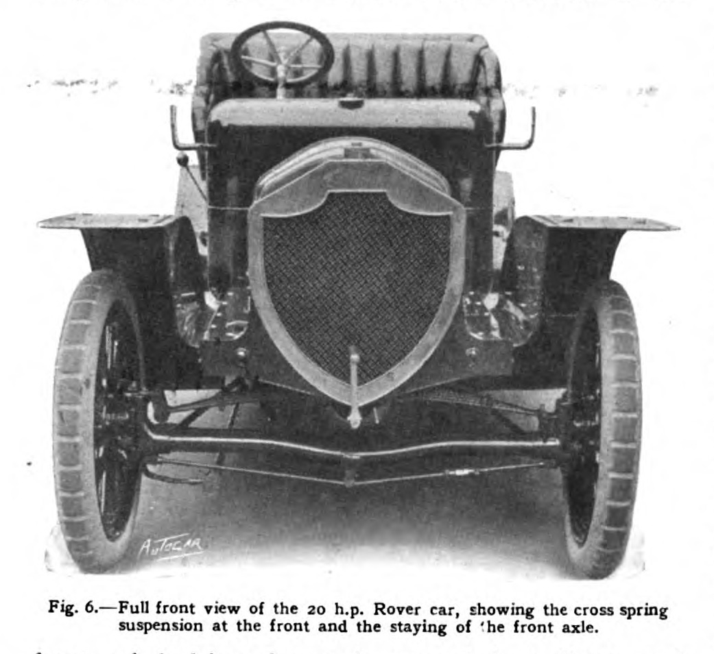 1908 Rover 20hp front suspension design